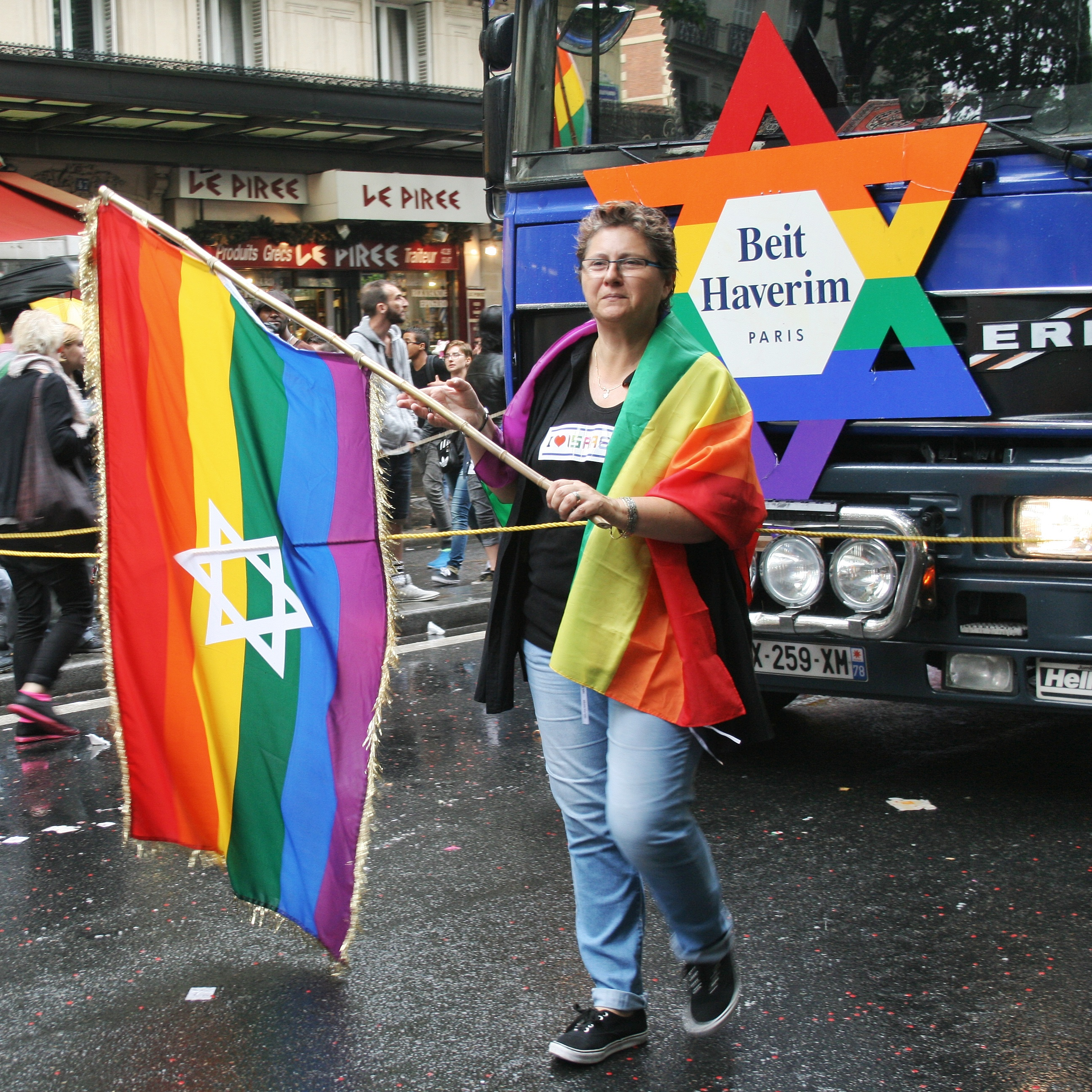 Photo of Gay Pride Parade, Paris (France), 28 June 2014. The event is now also known as LGBT Pride Parade (Marche des Fiertés LGBT).